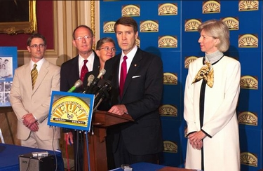 Senate Majority Leader Bill Frist spoke about his presidential agenda as he won the support of Senators Lindsay Graham (R-SC) and Lamar Alexander (R-TN) as well as Former U.S. Senator Fred Thompson (R-SC) and Former Governor of Wisconsin Tommy Thompson (R-WI).